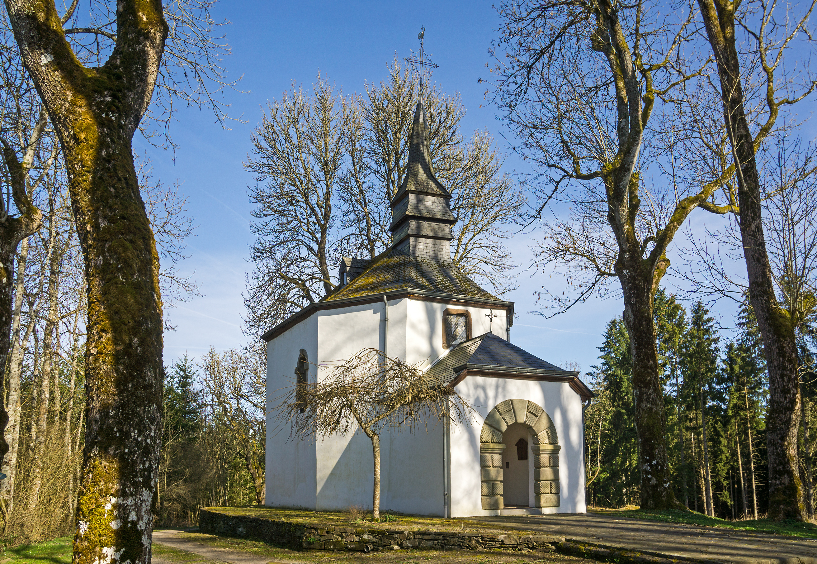 Saint Pirminius chapel in Kaundorf